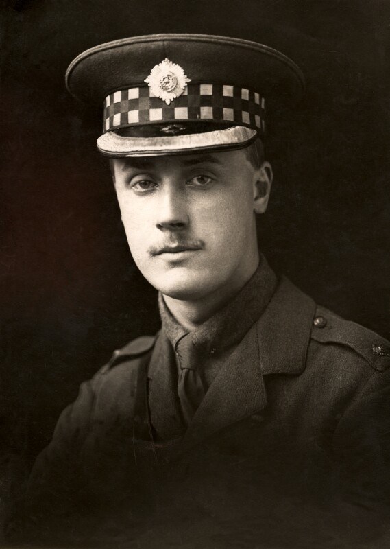 John Scott, 4th Earl of Eldon in the uniform of the Royal Scots Greys, photographed by George Charles Beresford, vintage print, 6 November 1918.